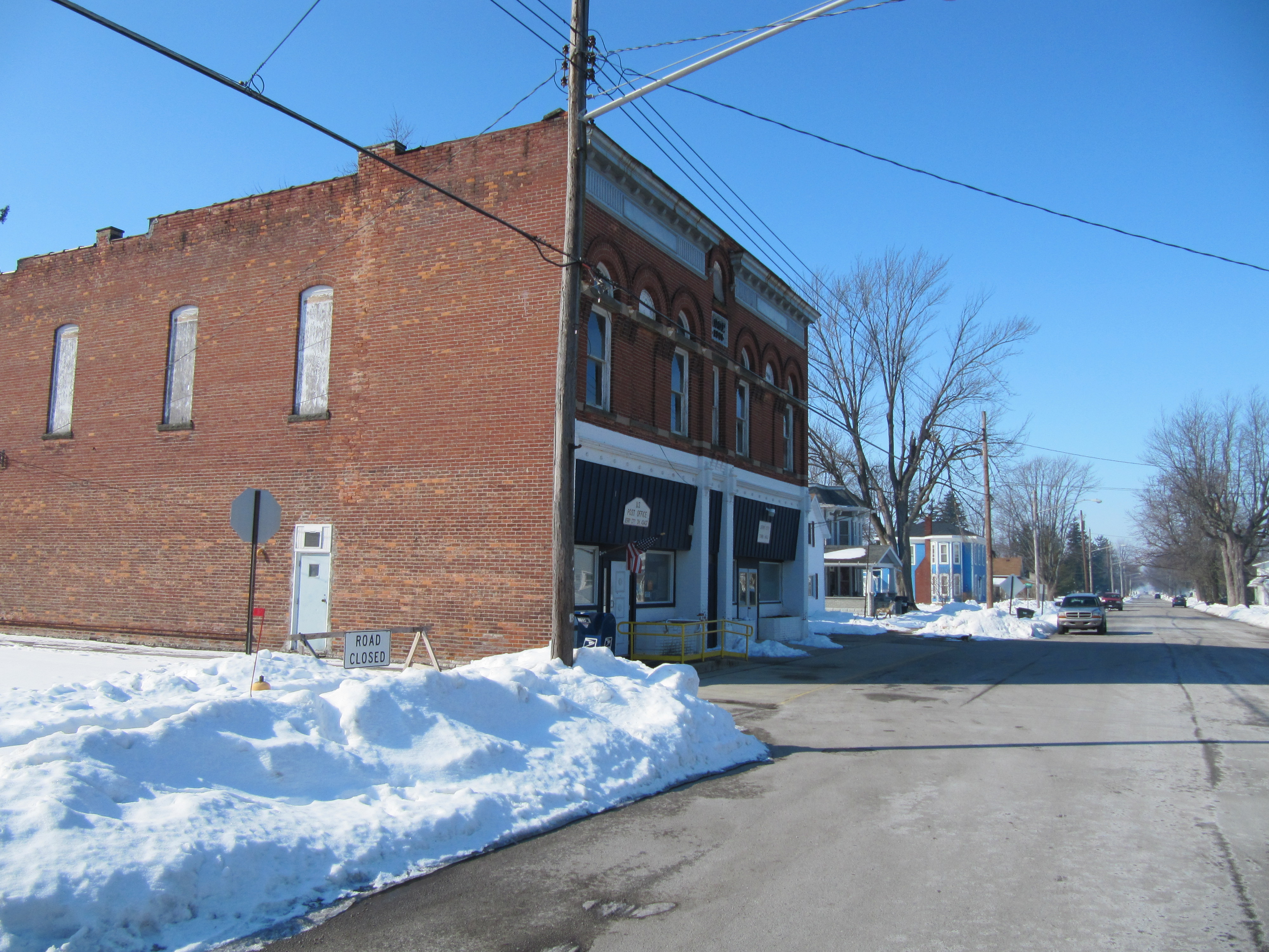 Photograph of the village of Jerry City, Ohioen, taken at street level from Main Street, looking West toward the local office of the United States Postal Serviceen.